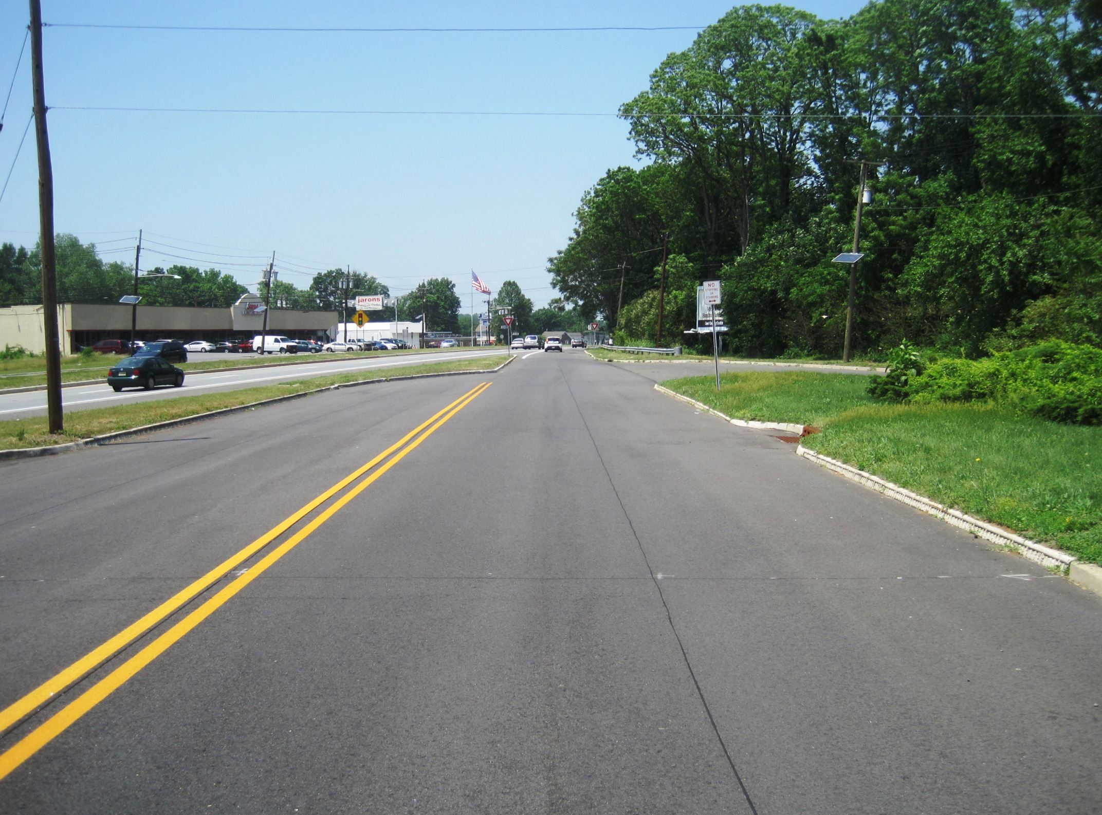 Photograph showing the northern terminus of Mission Road at U.S. Route 206 in Bordentown Township, New Jersey. Mission Road was previously designated New Jersey Route 160.